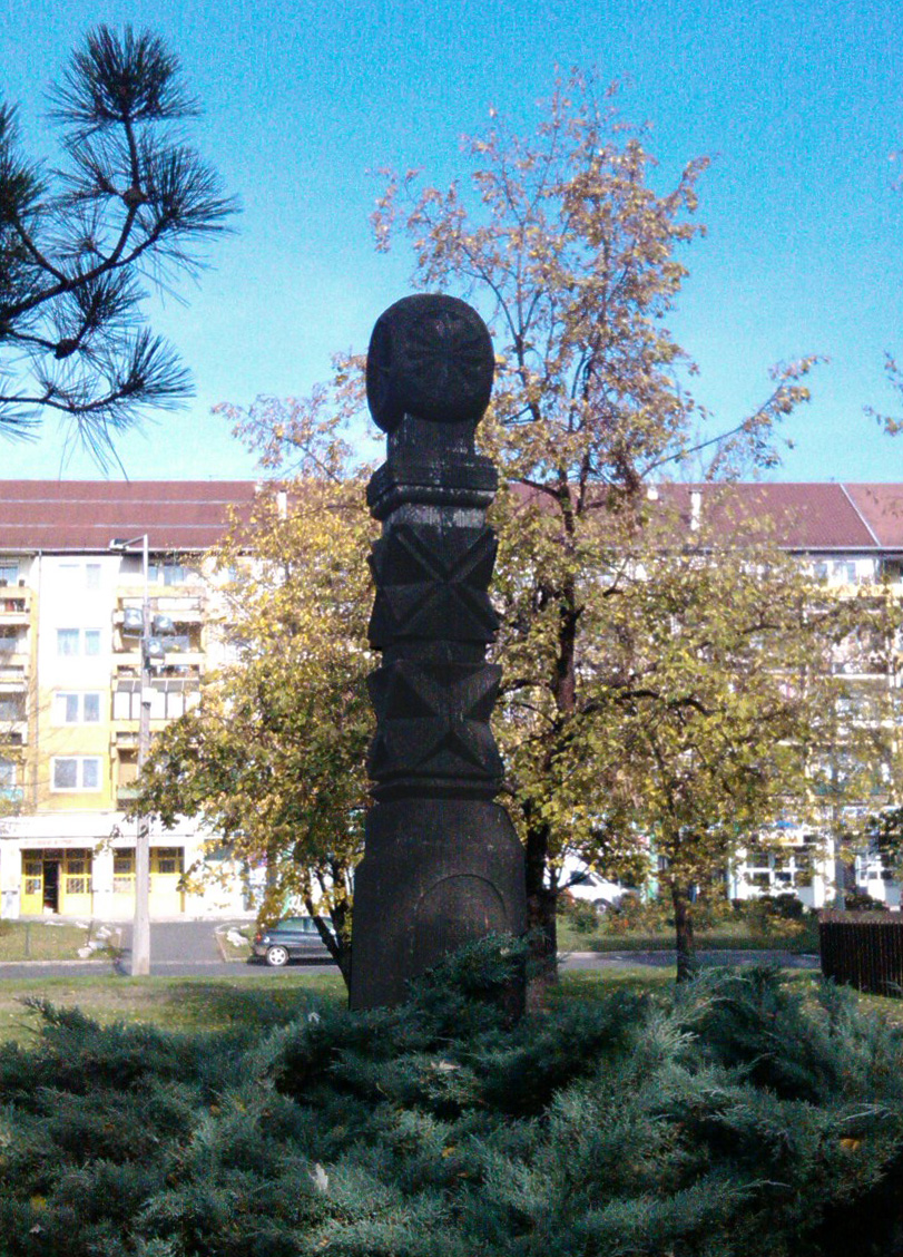 Monument to commemorate 1944 bombing. Next to the Greek Catholic Church, Búza square, Miskolc, Hungary.